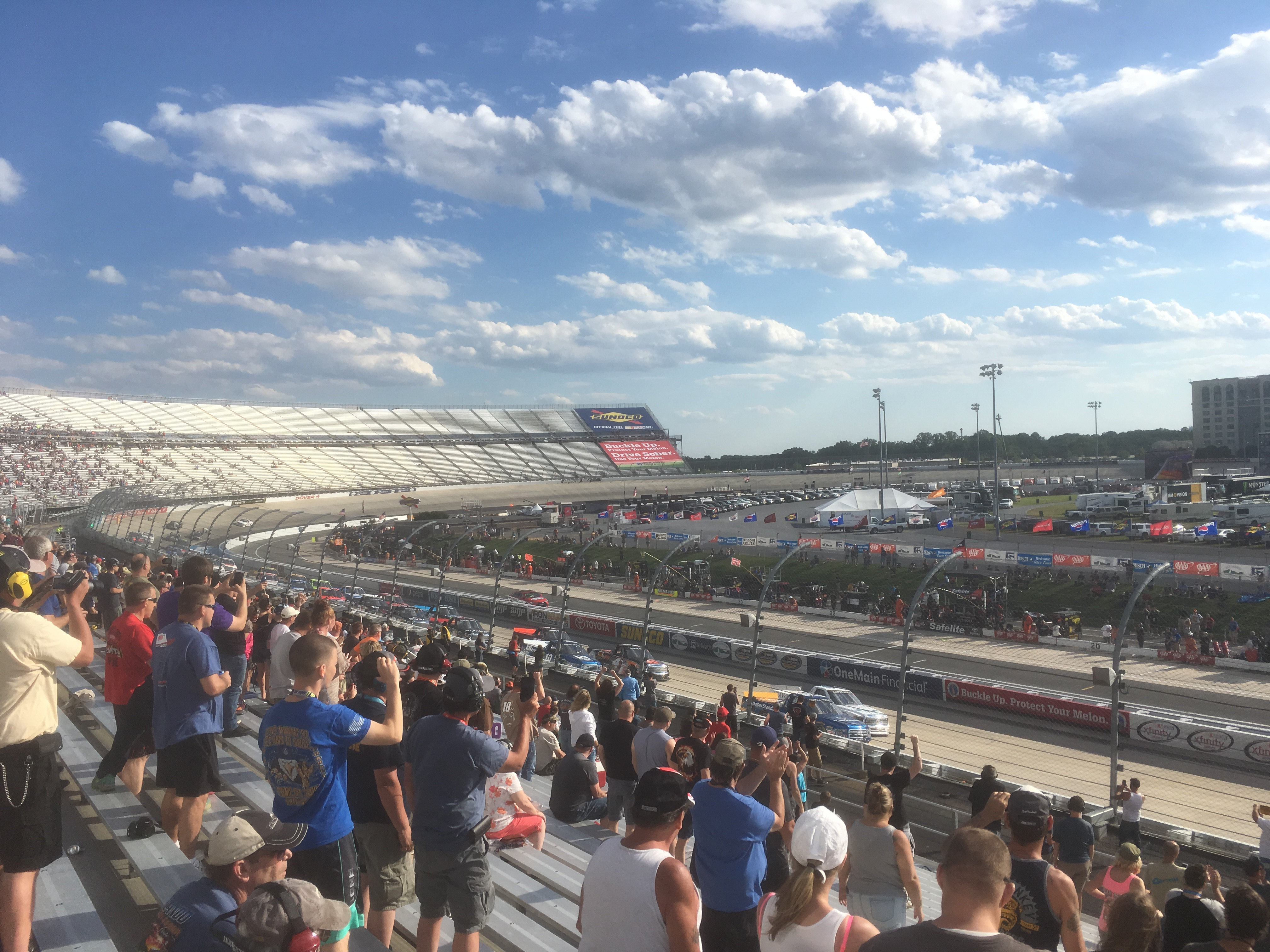 The 2017 Bar Harbor 200 at Dover International Speedway viewed from the frontstretch, with Chase Briscoe (#29) leading the field to the green flag.